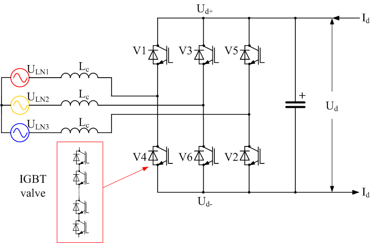 Three-phase, two-level voltage-source converter for HVDC transmission, using series-connected IGBTs as the switching elements.